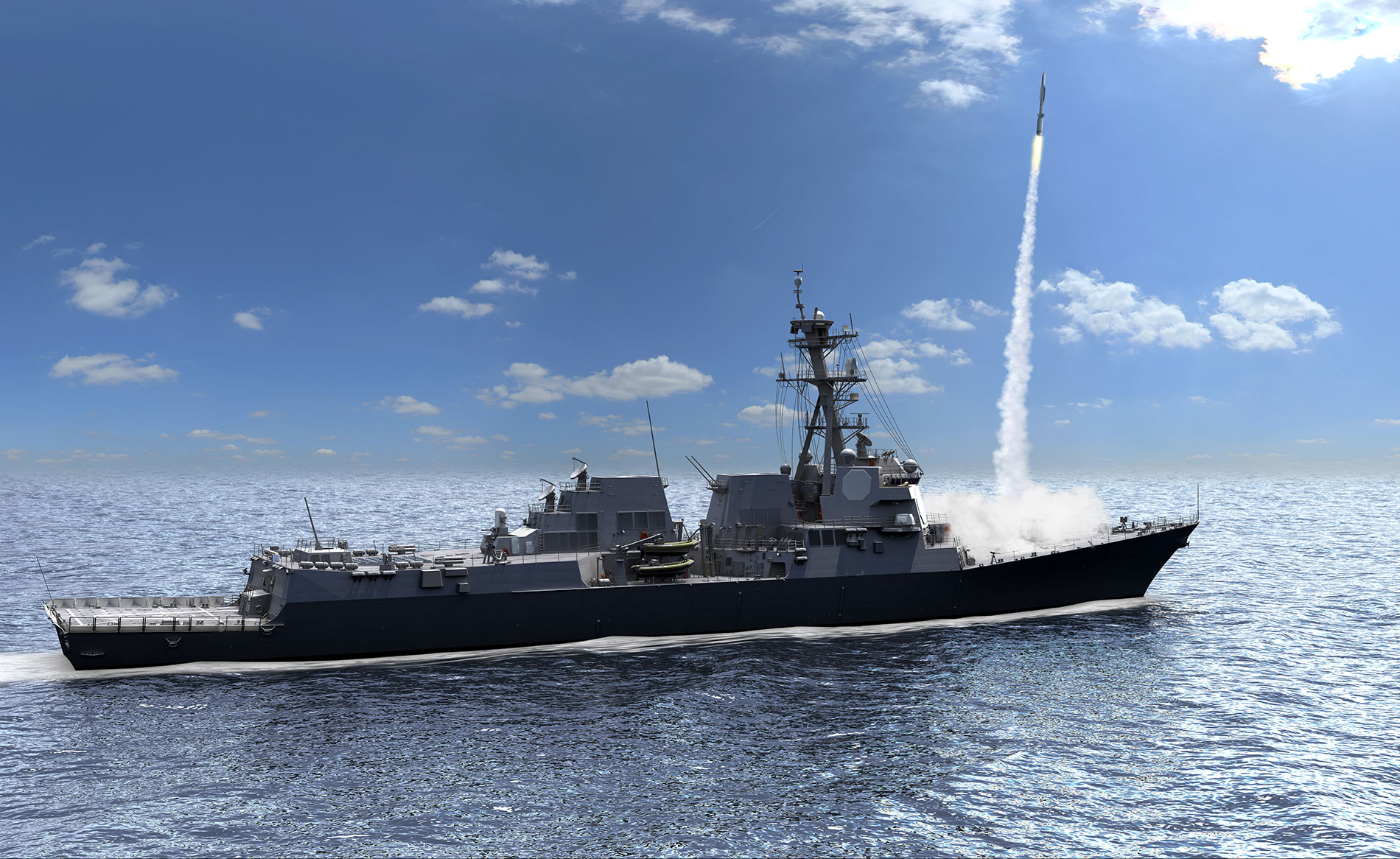 SM-2 missile launch from DDG-51 Flight III ship